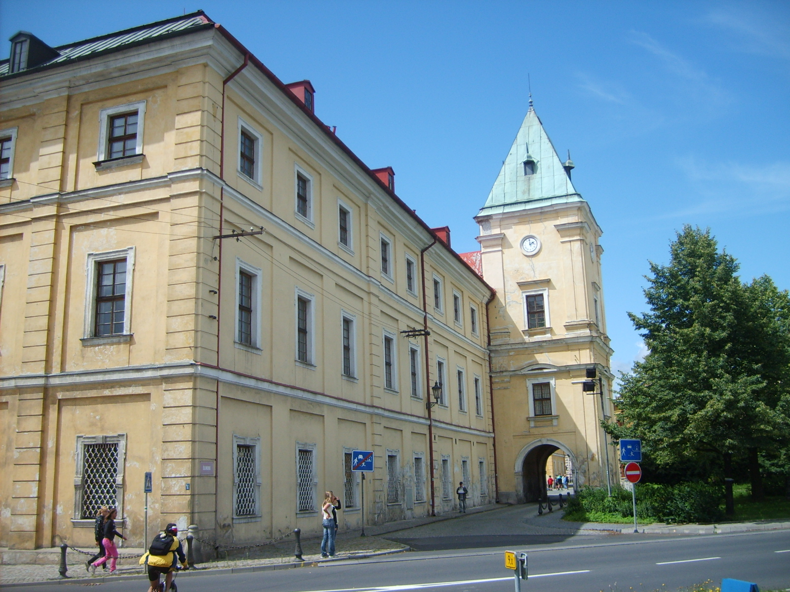 South part of chateau Ostrov nad Ohří, Carlsbad county, CZ